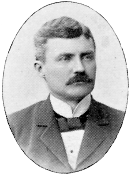 Image scanned from the book "Svenskt Porträttgalleri XX - Arkitekter, Bildhuggare, Målare m.fl. " ("Swedish Portrait Gallery XX - Architects, Sculptors, Painters, ") published 1901